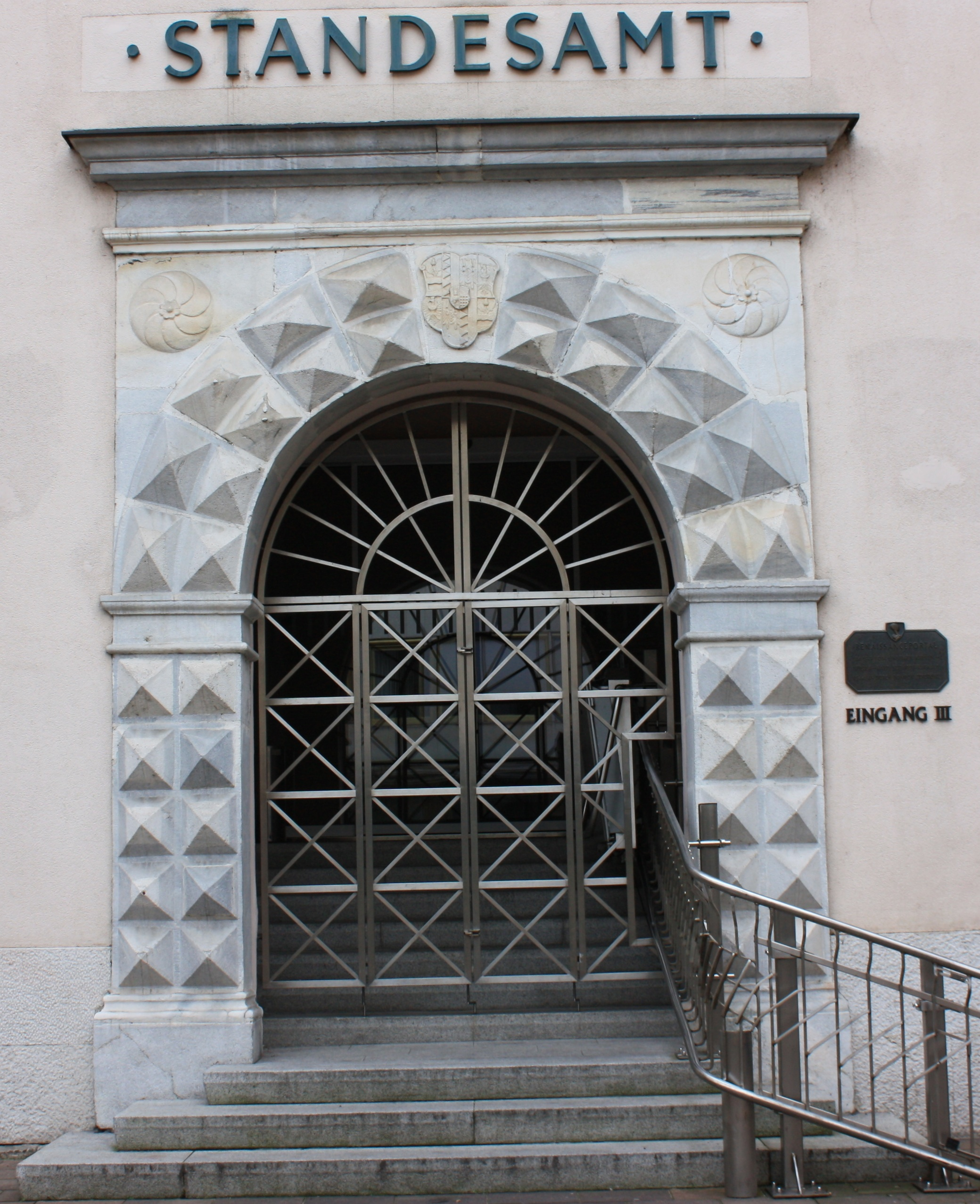 Portal of the registry office Locality: Standesamtplatz Community:Villach